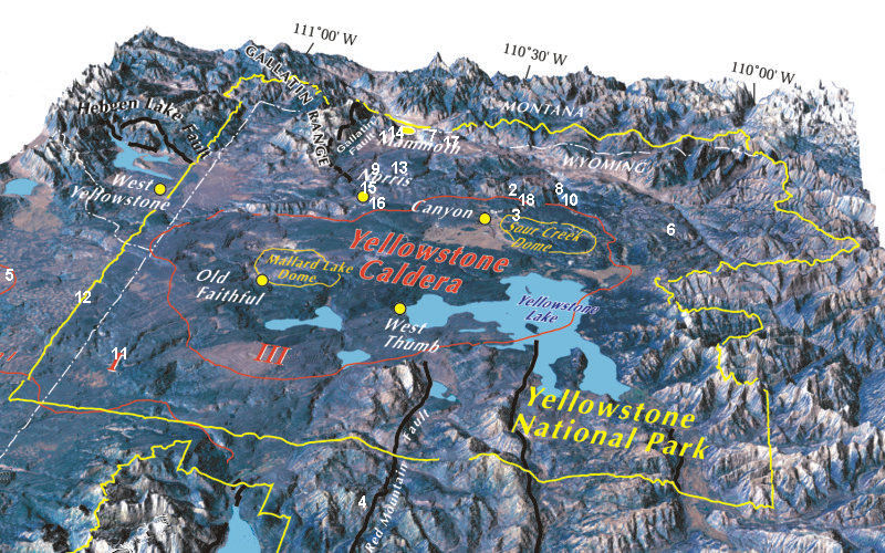 relief map of Yellowstone park